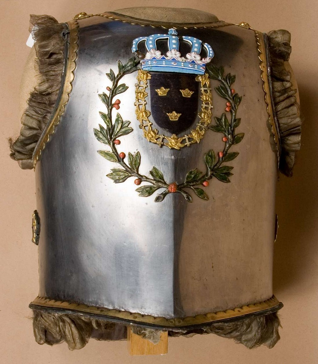 Cuirass for the Lieutentant captain of the Swedish kings personal body guard, the "Livdrabantkåren", from the early 1800's.